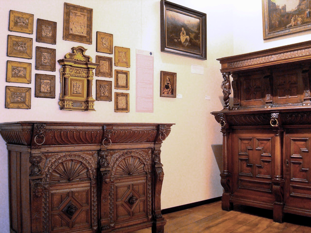 Liège, Grand Curtius, period room, 16th-17th c